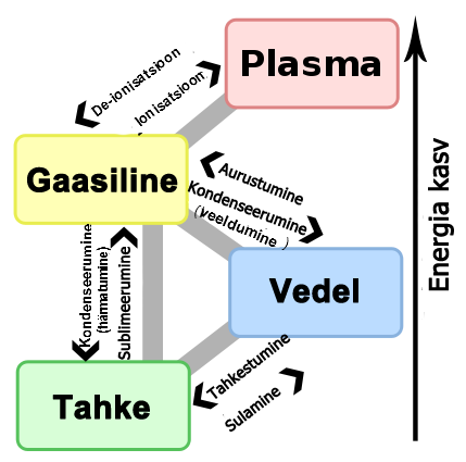 Phase transitions. Language:et